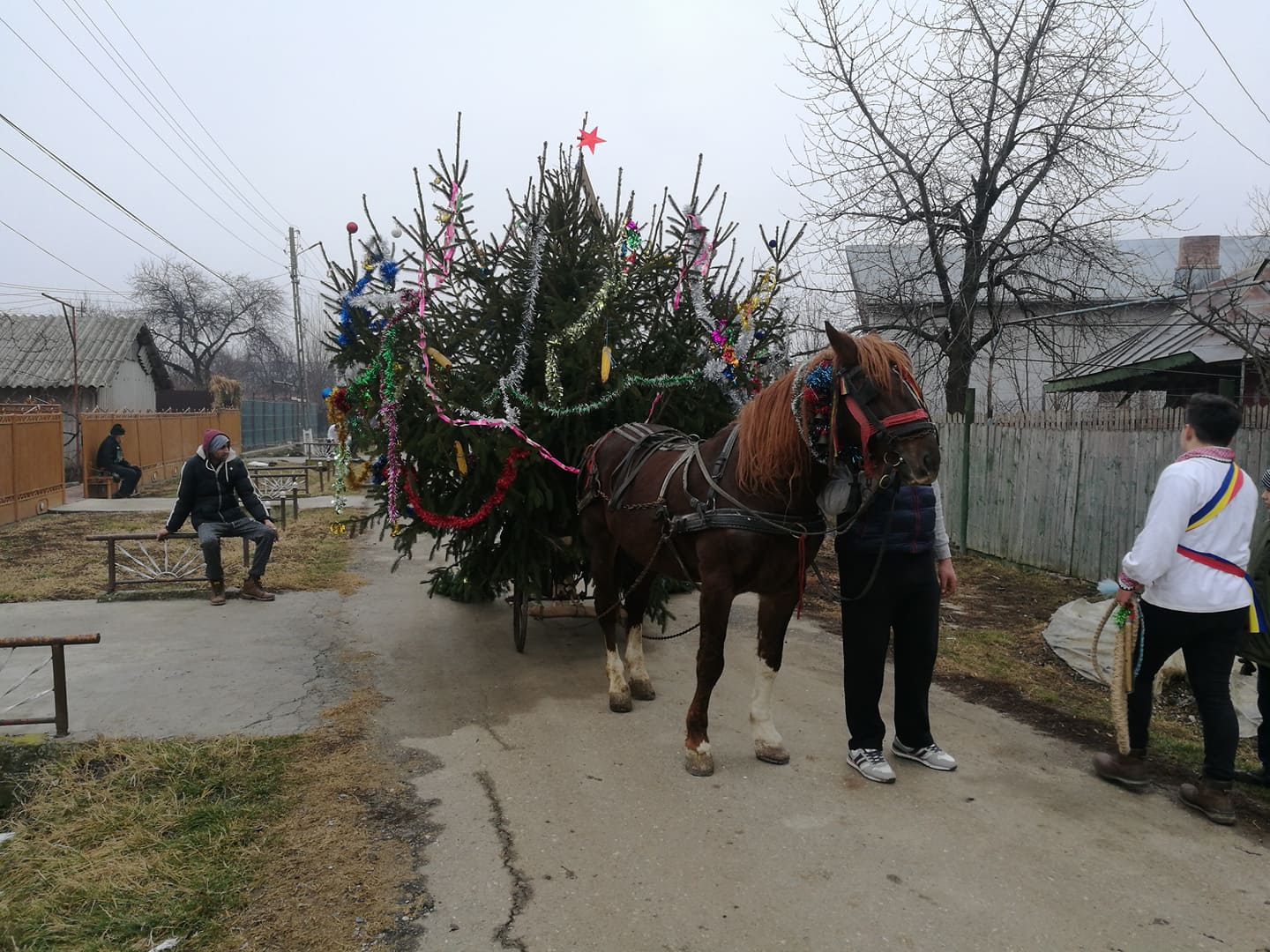 Plugușorul de Anul Nou